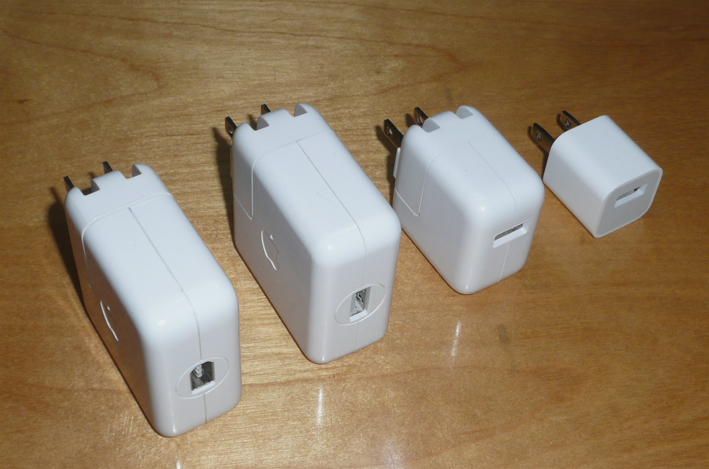 Four external ("wall") chargers for iPod or (later) iPhone, all made by Apple. To the best of the uploader's knowledge, these are the only versions Apple has made. From left to right: 1 FireWire, three increasingly small USB chargers.